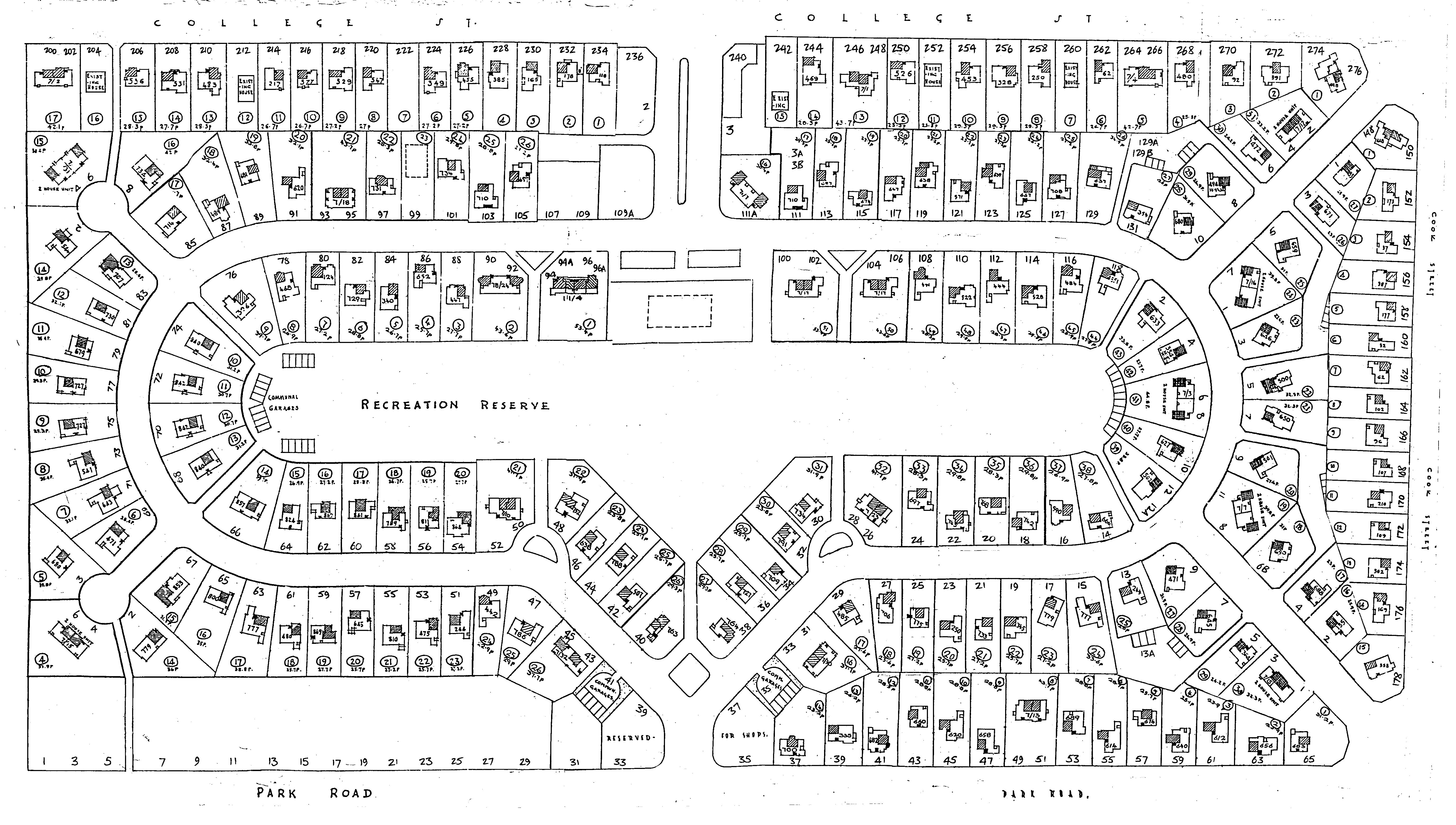 A copy of an original plan by R B Hammond (town planner and housing consultant for the Department of Housing) for the Savage Crescent state housing precinct, showing house design numbers. Savage Crescent is in the West End area of Palmerston North, bounded by College Street, Cook Street and Park Road. Fifty acres was bought by the Government for the development, and between 1938 and 1945, 245 state houses were built.